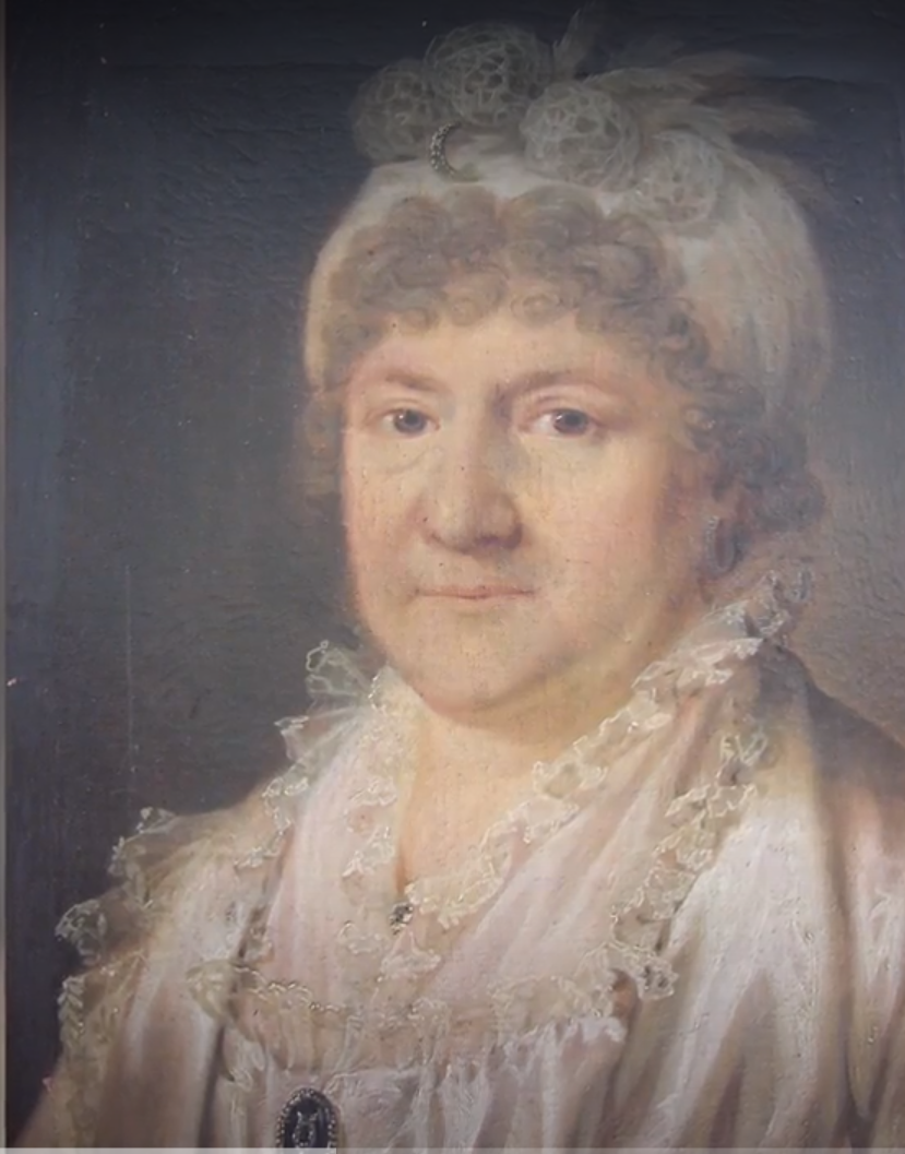 Martha Wærn, Norwegian-Danish pgilantrophist